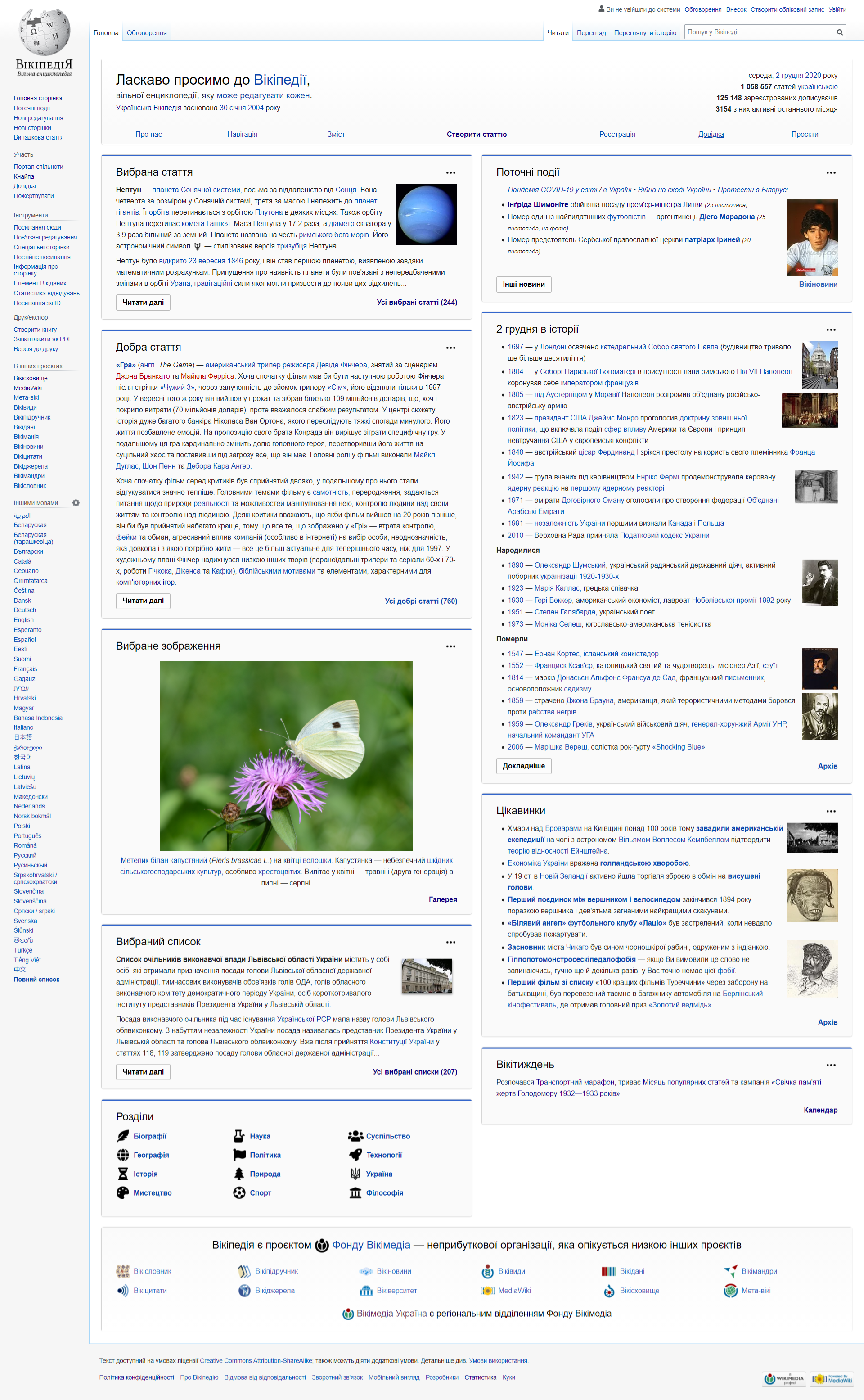 Screenshot of the Ukrainian Wikipedia's main page